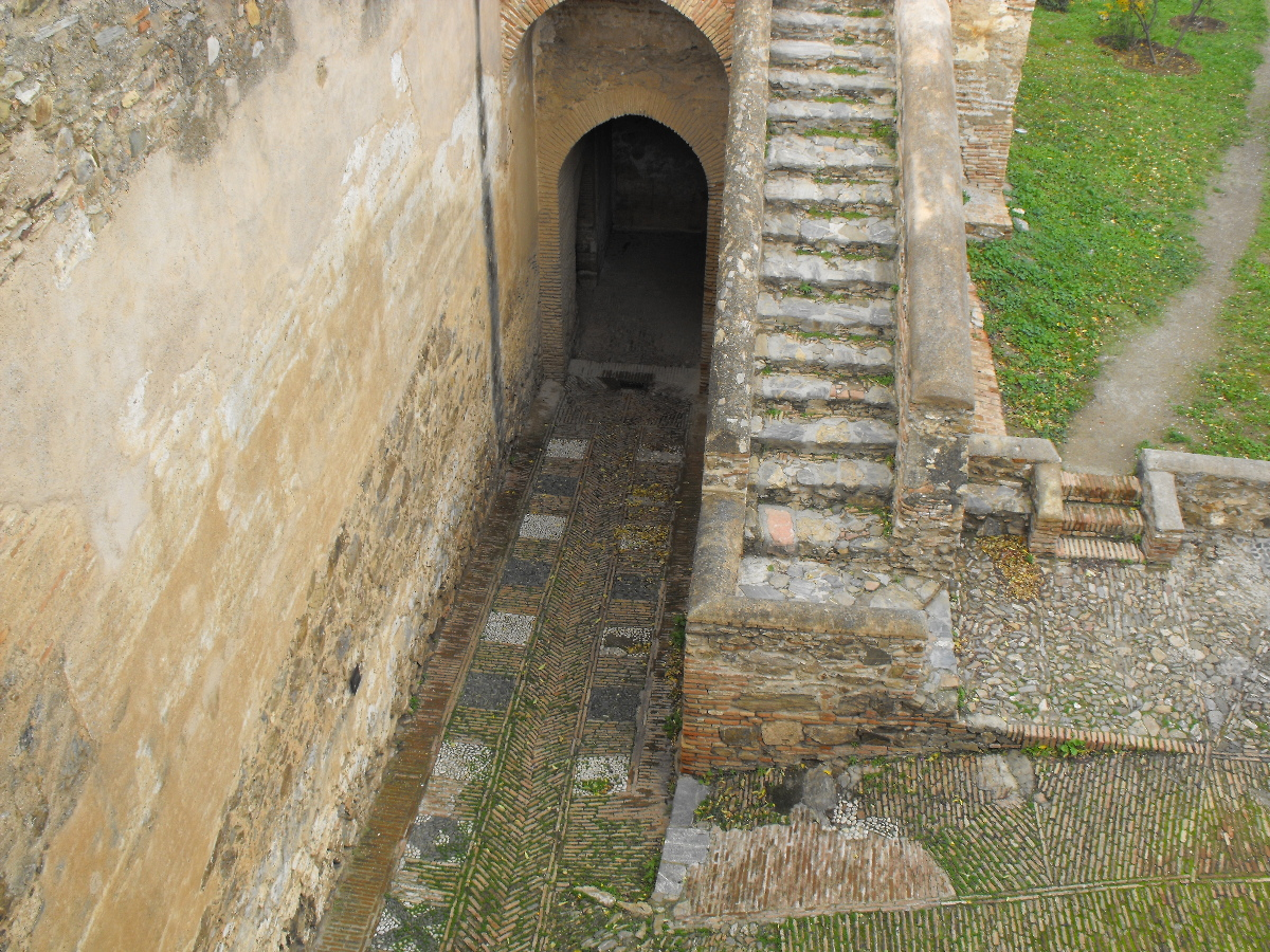 Castle of Gibralfaro in Malaga (Spain), main gate, view from inside.